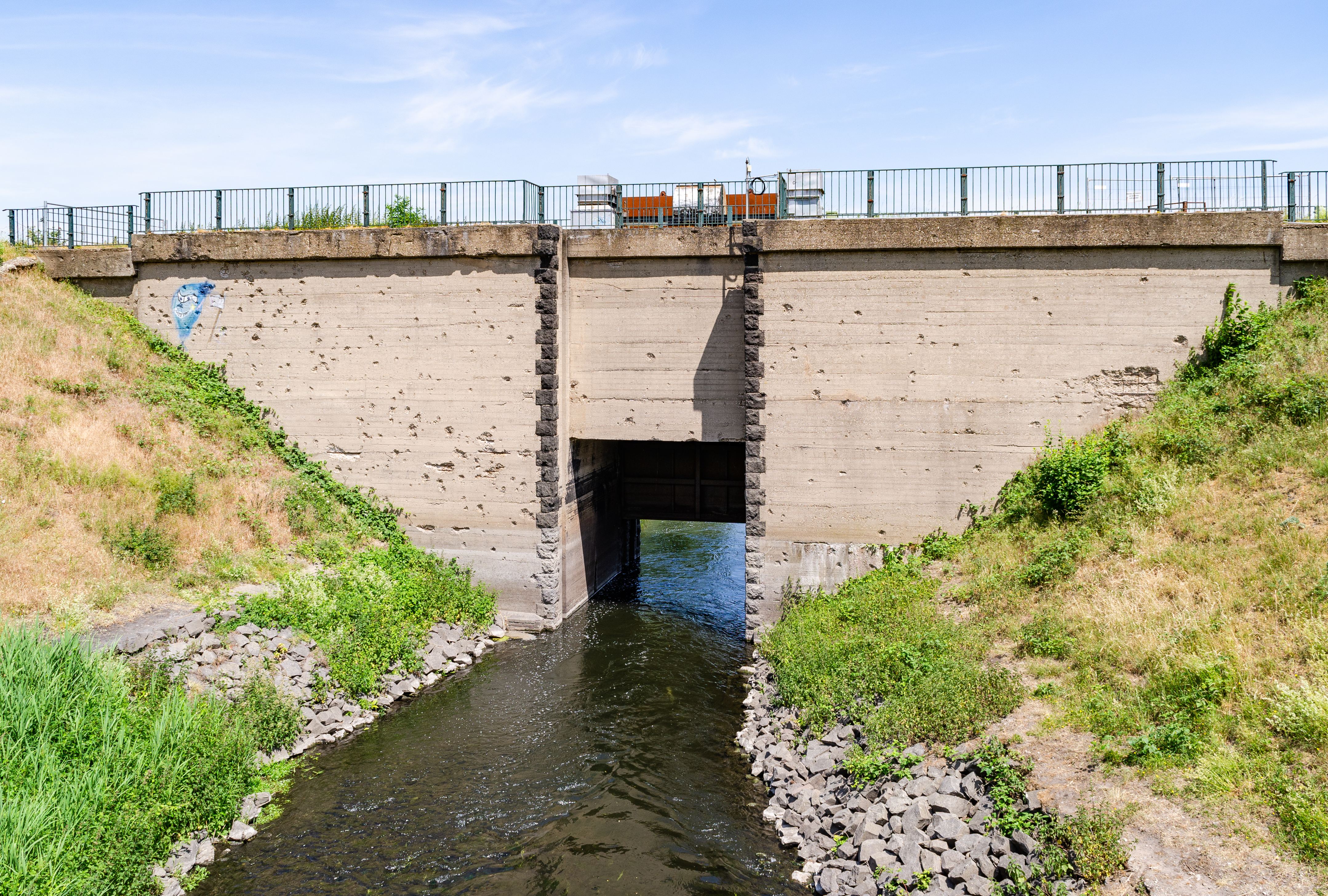 Rheinberg (North Rhine-Westphalia, Germany) – district Ossenberg – Old Rhine of Rheinberg (part of the streams Moersbach, Fossa Eugeniana) – flood protection lock (called “Ossenberger Schleuse”)